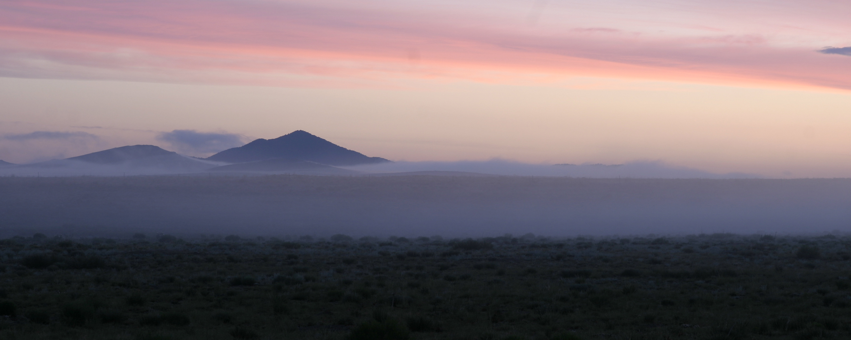 In the Wet Mountain Valley.Morning Mist